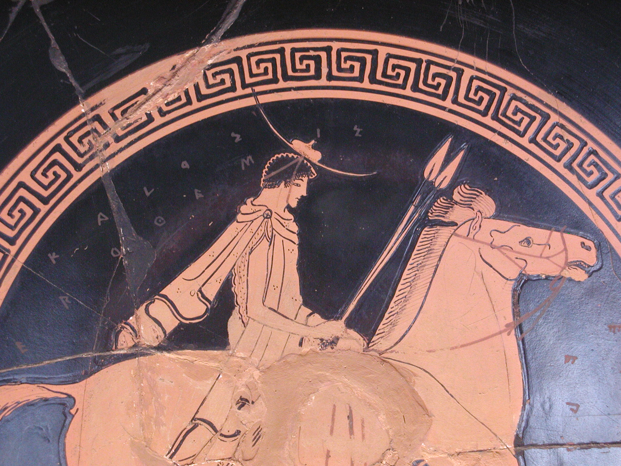 Rider. Interior of an Attic red-figure cup, ca. 500–490 BC. Found in Vulci.